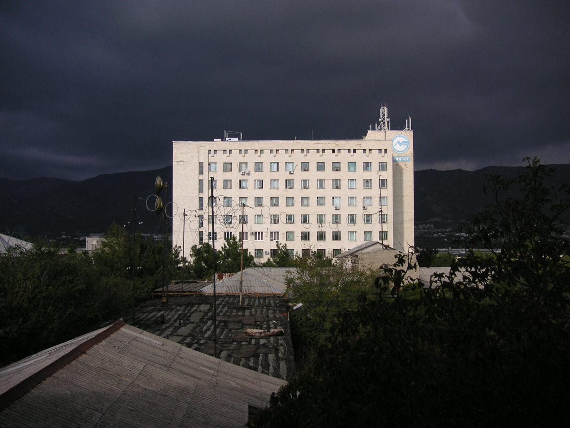 Sevmorneftegaz-Yug: view of the building during thunderstorm, Gelendzhik, Krasnodar Krai, Russia.